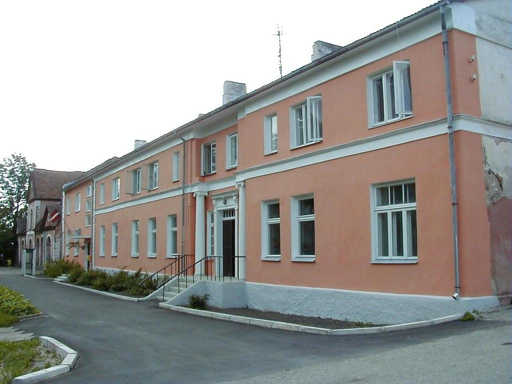 Dunalka parish administrations house